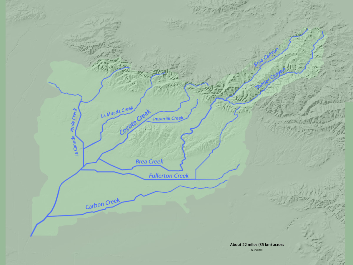 Corrected from Coyotecreekocmap.png, file type didn't match, fixed 2 stream names and scale